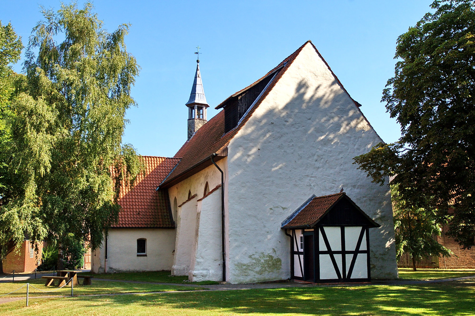 St. Mary's Church, Bröckel, Lower Saxony, Germany